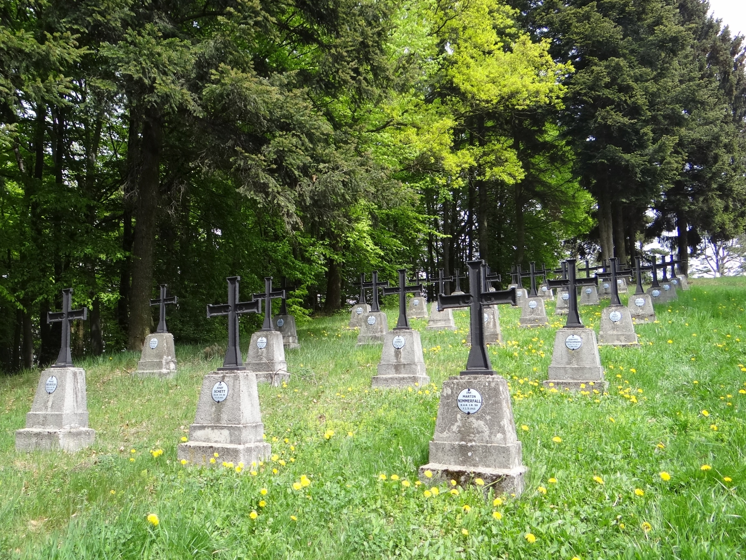 World War I Cemetery nr 185 in Lichwin